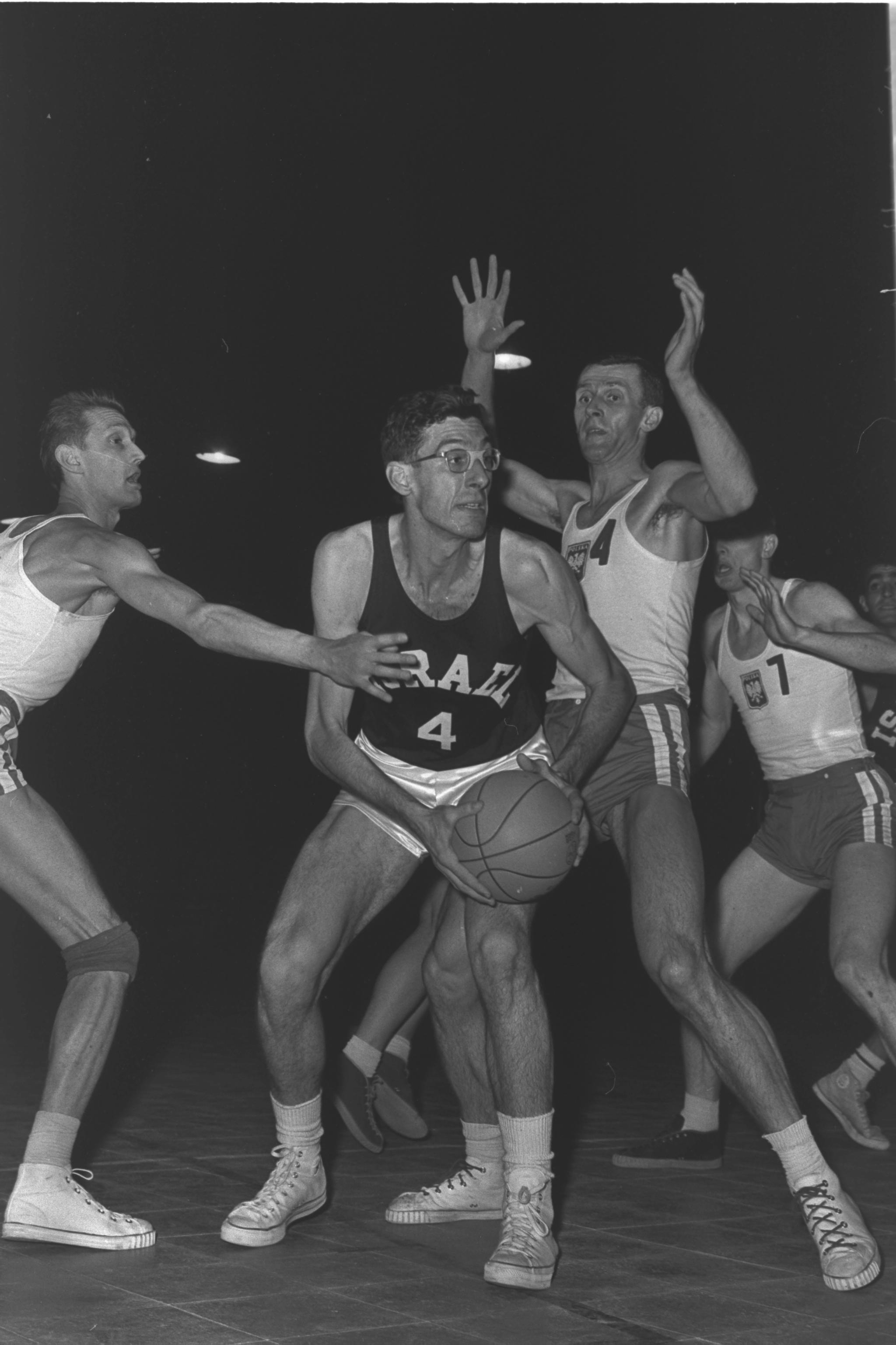 Israel national basketball team player Tanhum Cohen-Mintz playing against Poland